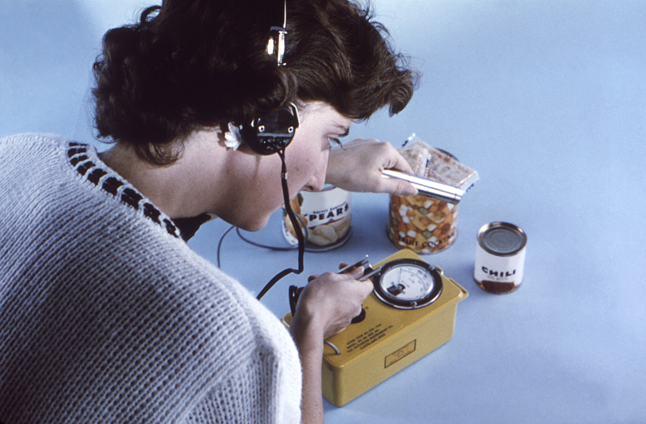 ID#: 12020 Description: This 1963 image depicted a Centers for Disease Control staff member, as she was surveying foods for fallout contaimination with a Geiger-Müller counter. The Geiger-Müller counter, usually referred to as a Geiger counter, is a particle detector that checks for the presence of of ionizing radiation, including the emission of nuclear radiation. High Resolution: Right click here and select "Save Target As..." for hi-resolution image (14.58 MB) Content Providers(s): CDC/ Warren Dobson Creation Date: 1963 Photo Credit: Links: Categories: CDC Organization MeSH tree picture Analytical, Diagnostic and Therapeutic Techniques and Equipment tree picture tree picture Equipment and Supplies tree picture tree picture tree picture Diagnostic Equipment tree picture Physical Sciences tree picture tree picture Natural Sciences tree picture tree picture tree picture Physics tree picture tree picture tree picture tree picture Nuclear Physics tree picture tree picture tree picture tree picture tree picture Radioactivity Copyright Restrictions: None - This image is in the public domain and thus free of any copyright restrictions. As a matter of courtesy we request that the content provider be credited and notified in any public or private usage of this image.